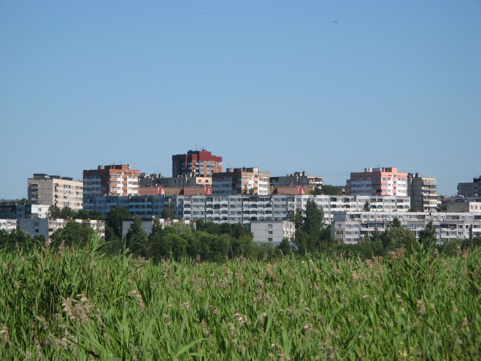 Buildings of the Soviet Era in the south-eastern outskirts of Vyborg.